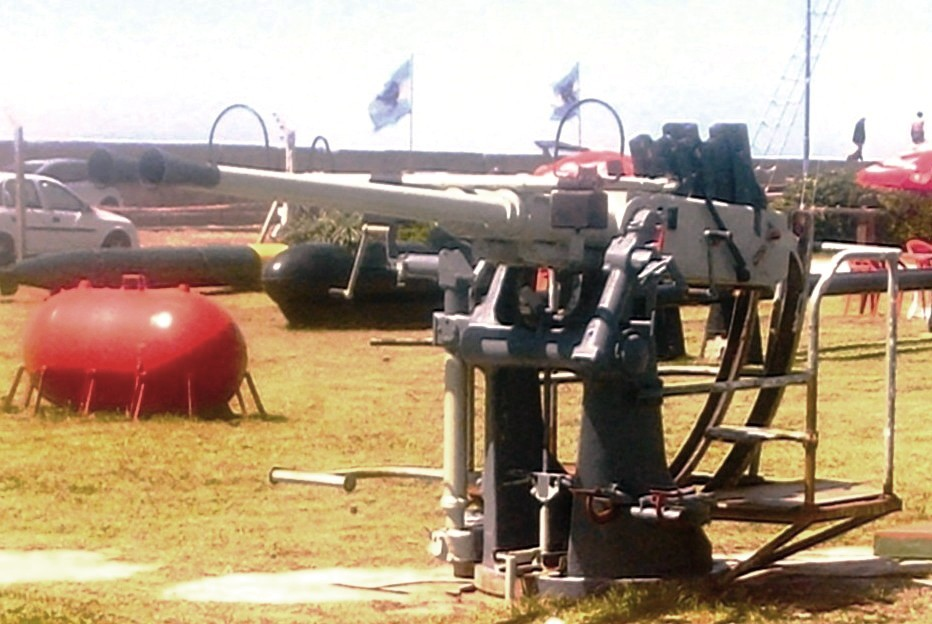 A twin Bofors L/60 antiarcraft cannon dismounted from a Drummond class corvette of the Argentine Navy